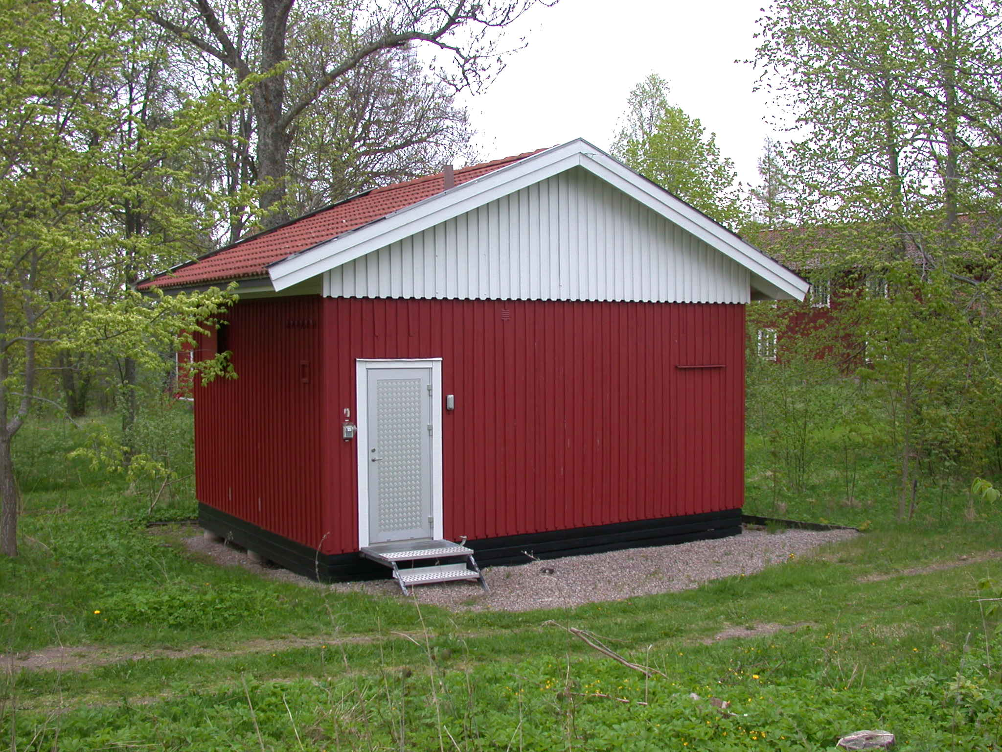 Swedish telecom repeater station, Sweden.